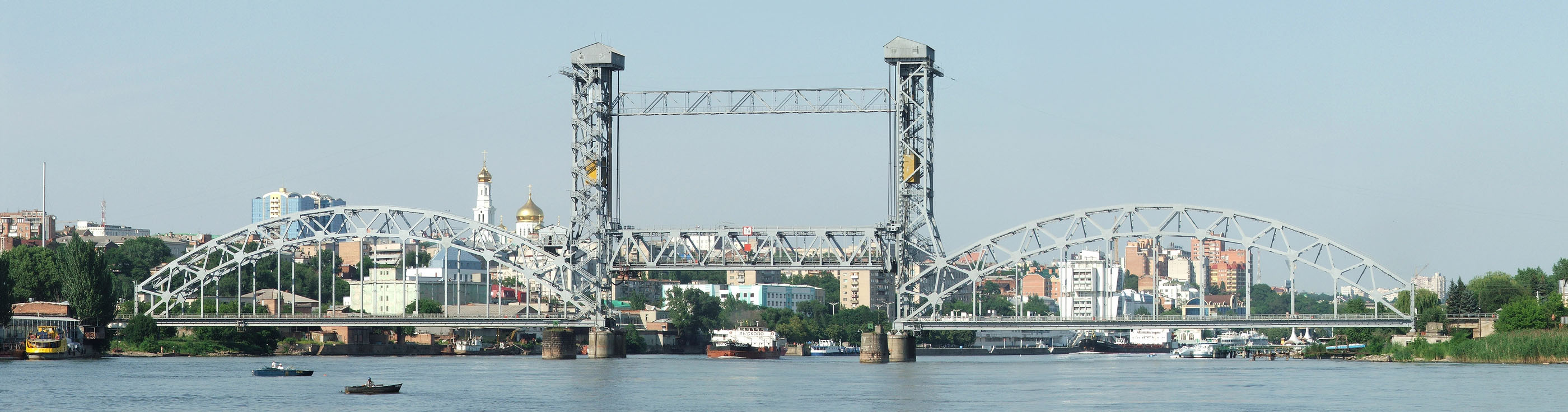 Railway's bridge over the river Don